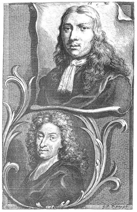 Plate D p96 11 Abraham Genoels, 12 Adr. van den Velde. Illustration from Part 3 of Arnold Houbraken's Schouburg from 1721